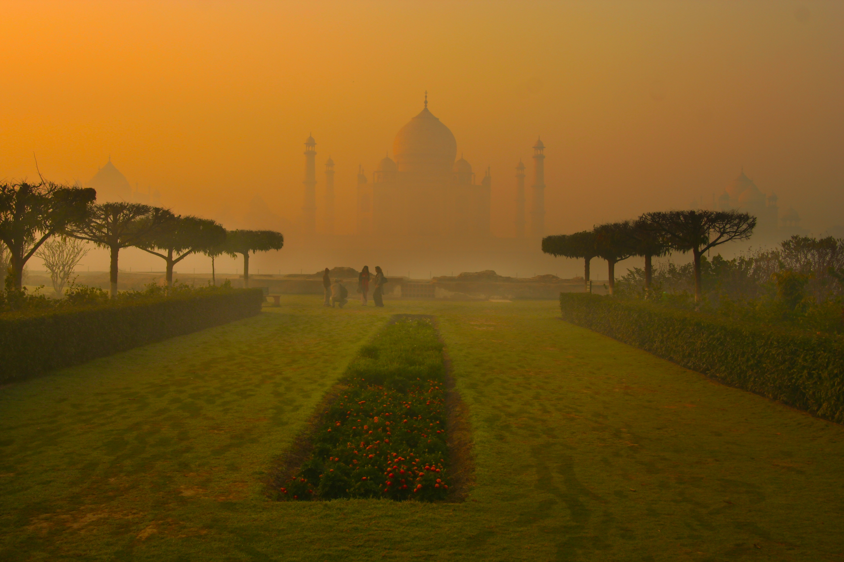 Shot of Tajmahal from Mehtab Bagh in foreground